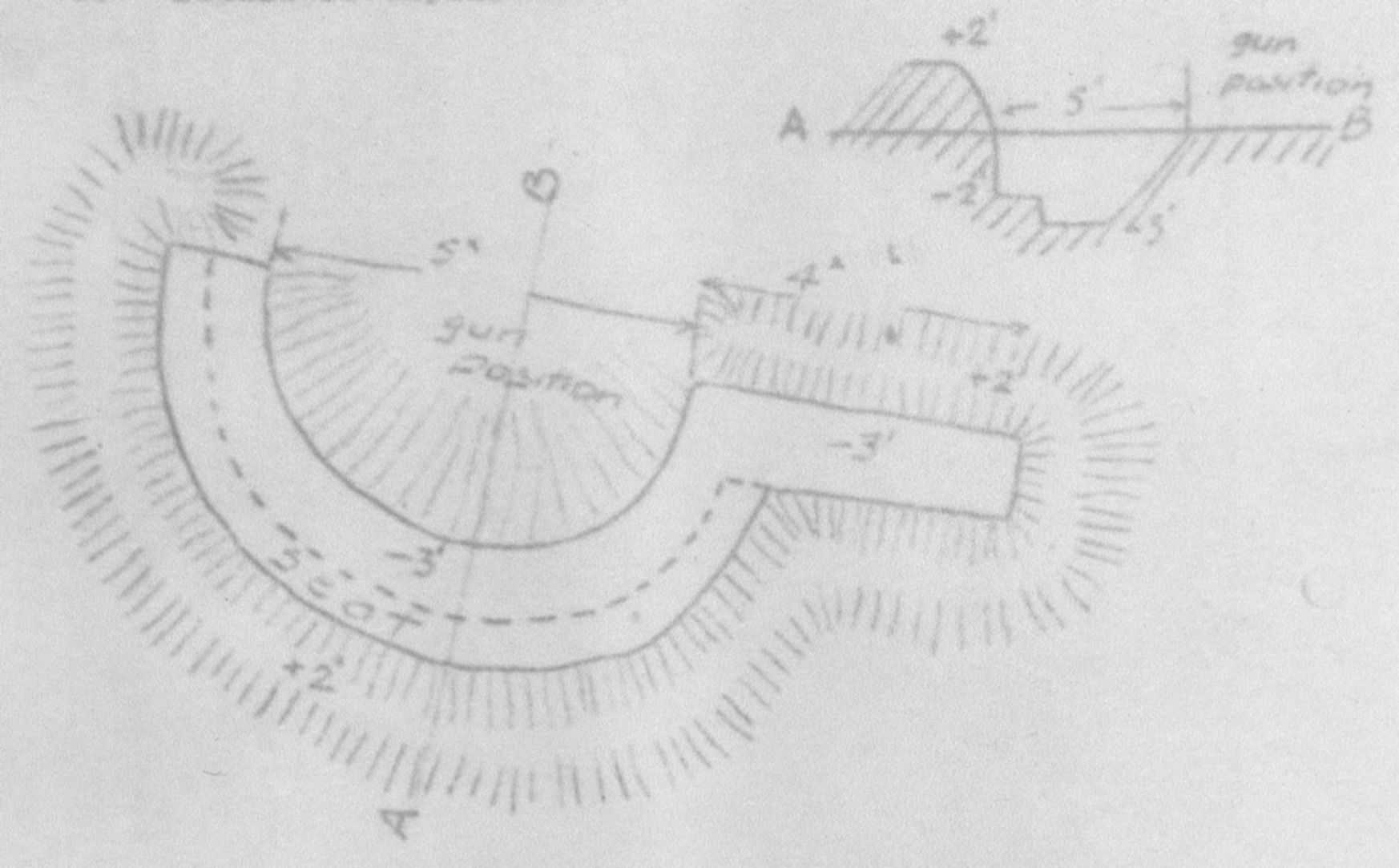 Sketch of Ottoman gun emplacement in 1917 Other information Army War Diary government document